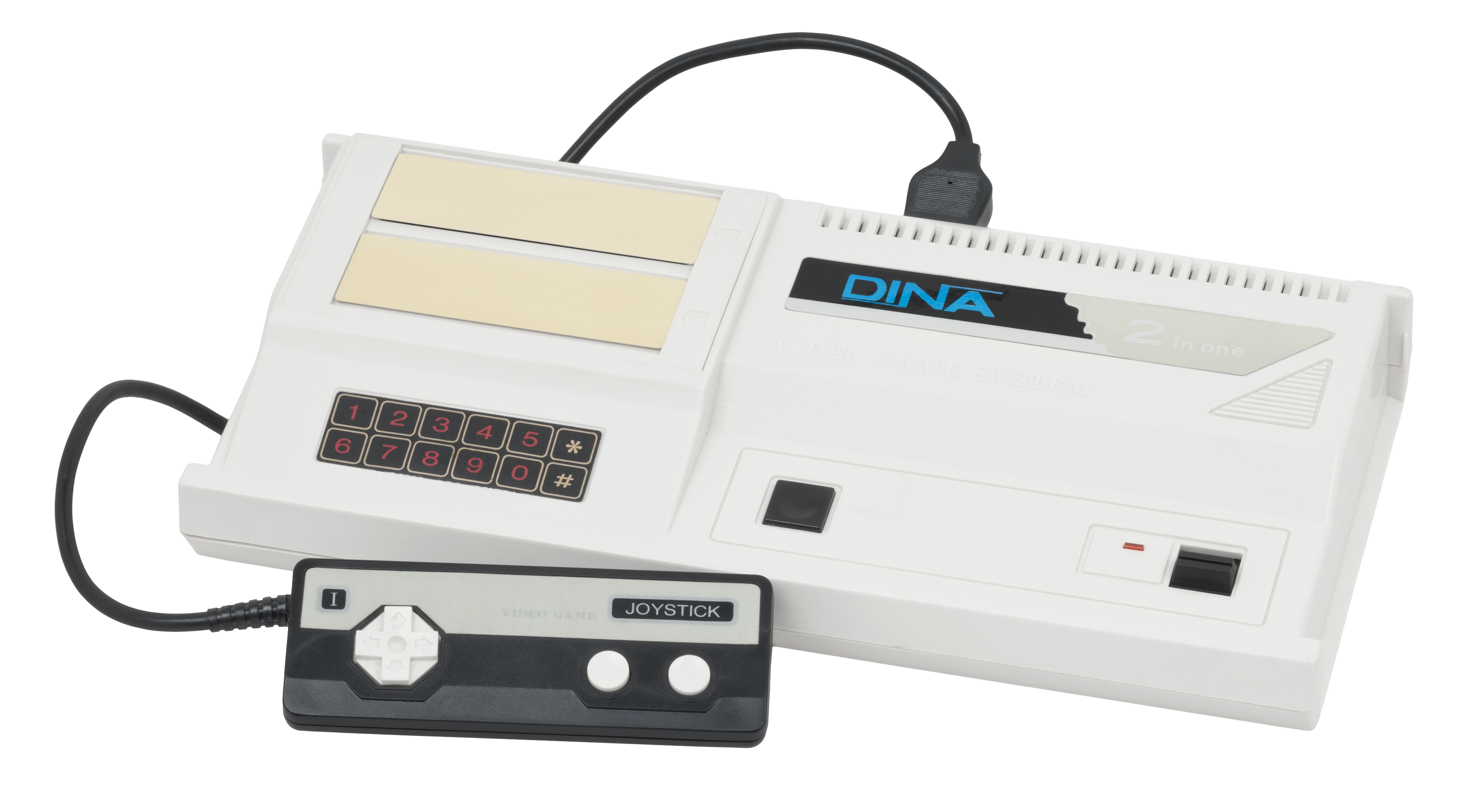 A Dina 2-in-one, or the Telegames Personal Arcade video game console, a clone system that can play ColecoVision or Sega SG-1000 games. Originally the Dina, it was later rebranded the Telegames Personal Arcade when released in America. Note that this console says it's a Dina, even though the box it came in was labeled Telegames Personal Arcade. Confusing.